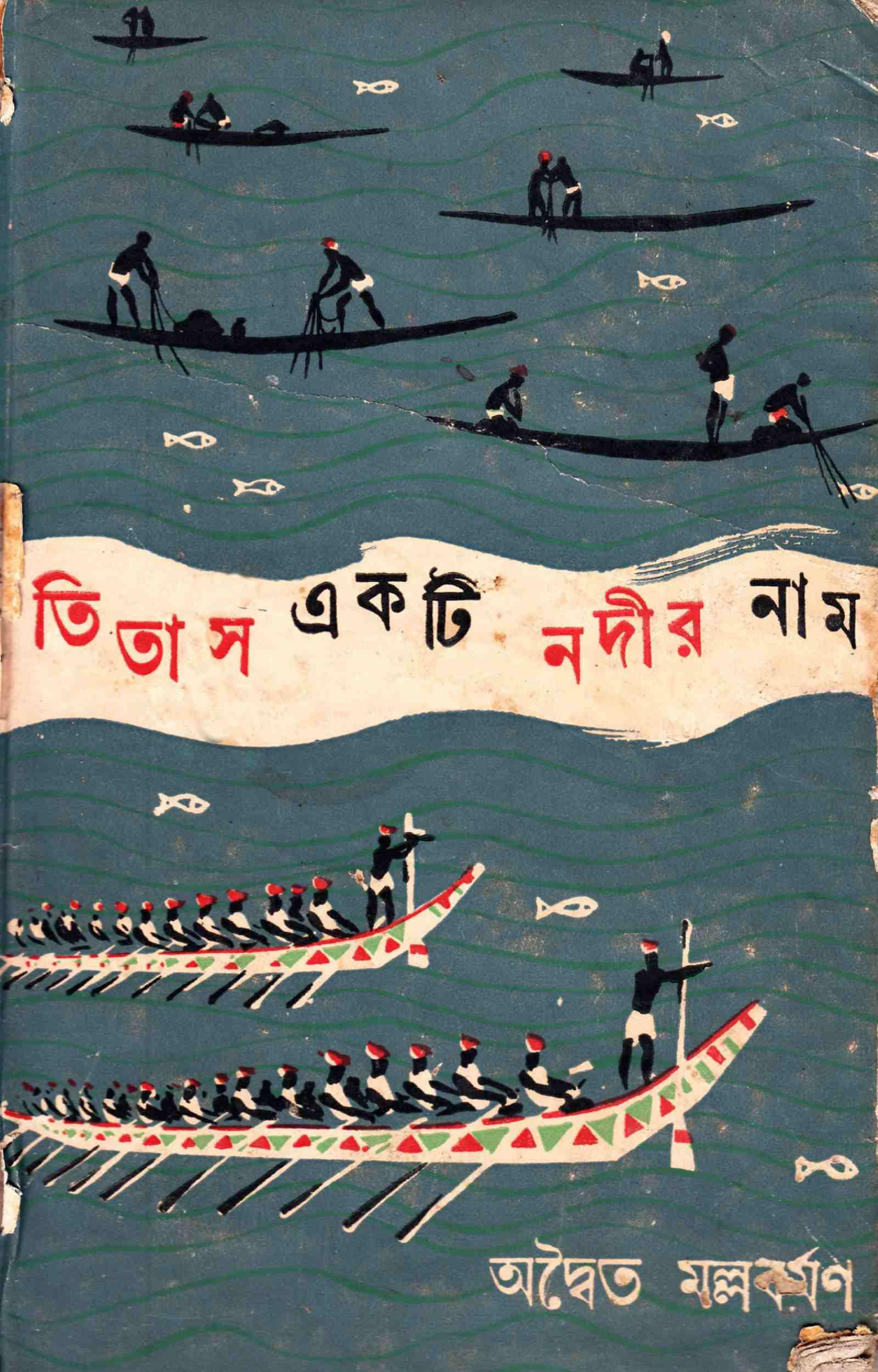 Cover of Titash Ekti Nadir Naam